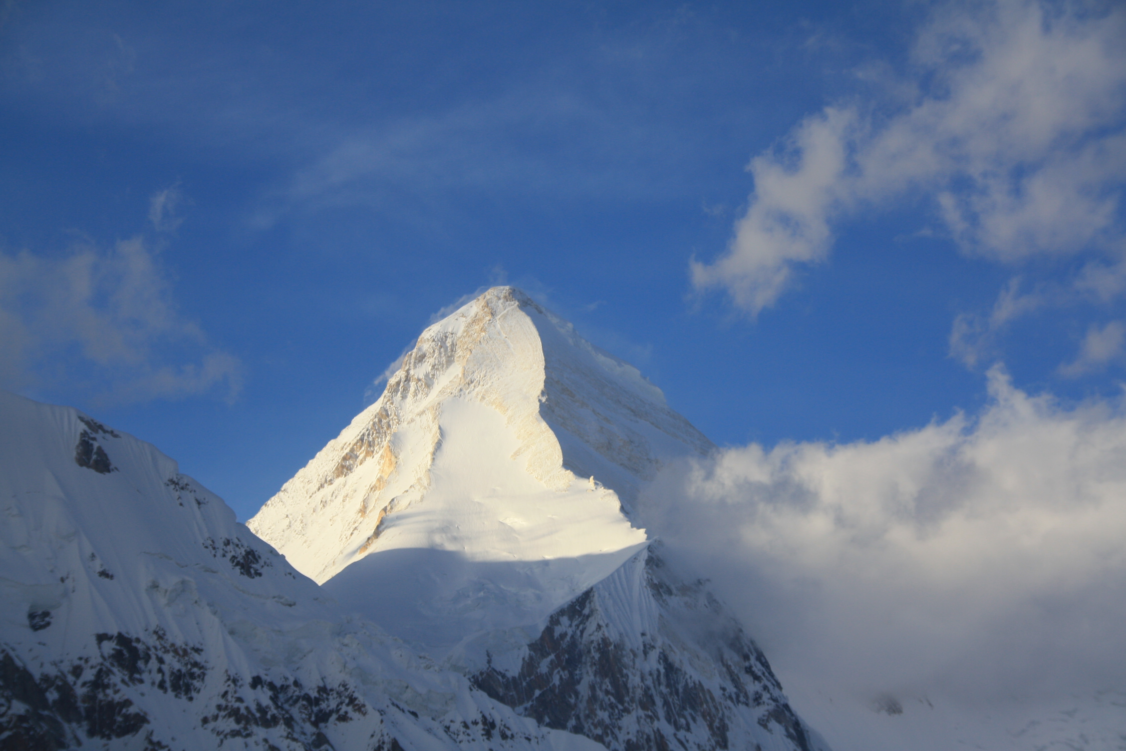 Khan Tengri (6995 m), Tian Shan, Kyrgyzstan/Kazakhstan